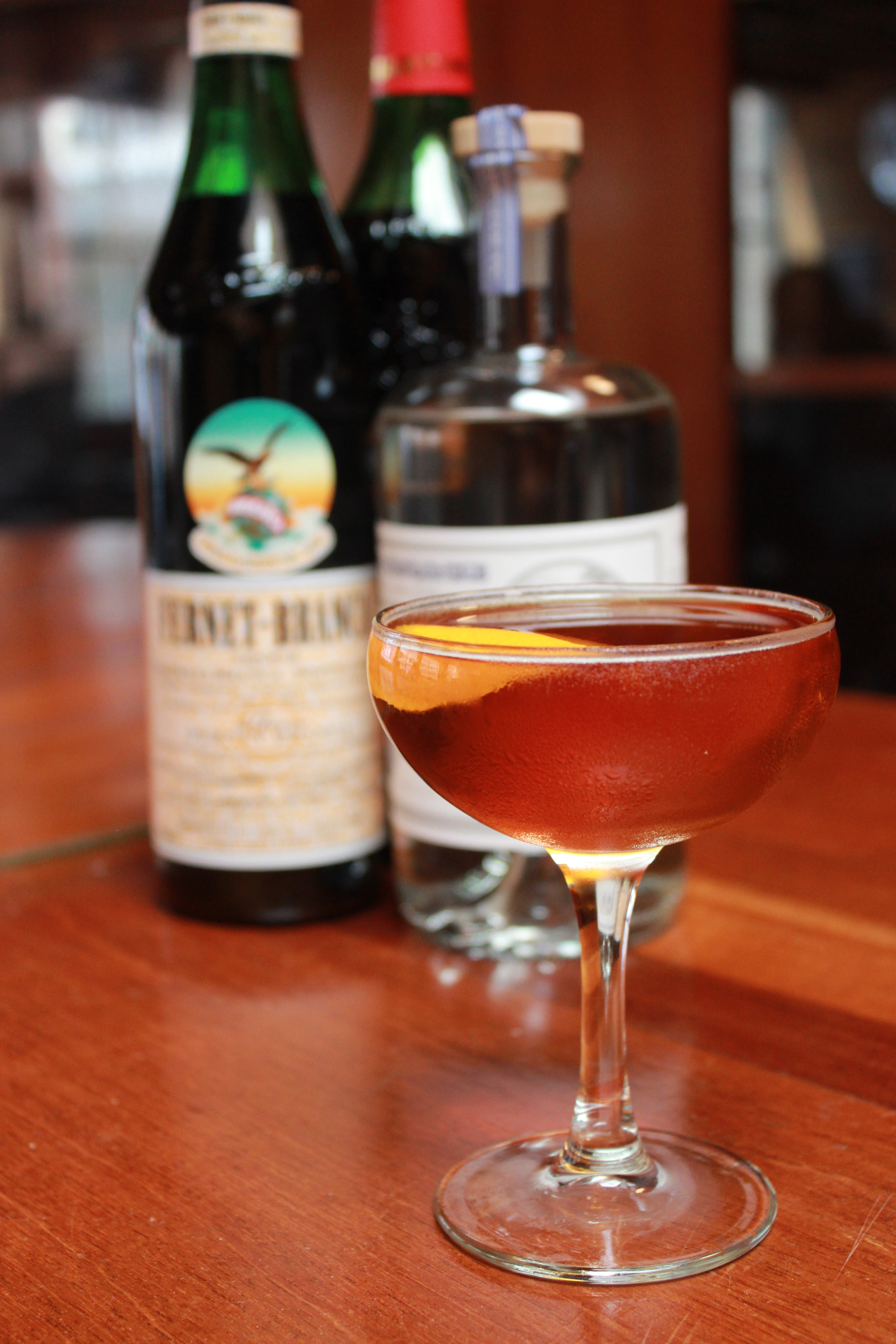 Hanky Panky cocktail with ingredients: St. George Botanivore gin, Martini Rosso vermouth, and Fernet Branca.